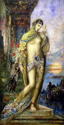 The Song of Songs: the Shulammite Maiden by Gustave Moreau (1826-1898), watercolour on paper, 19 x 37 cm / 7.5 x 14.6 inches